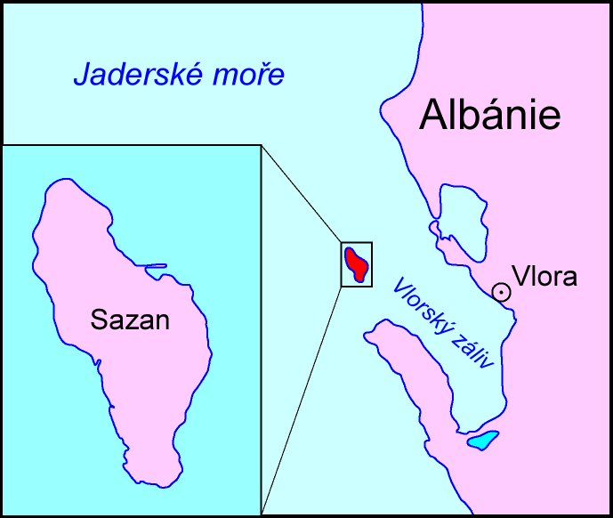 Map of island of Sazan (Albania)